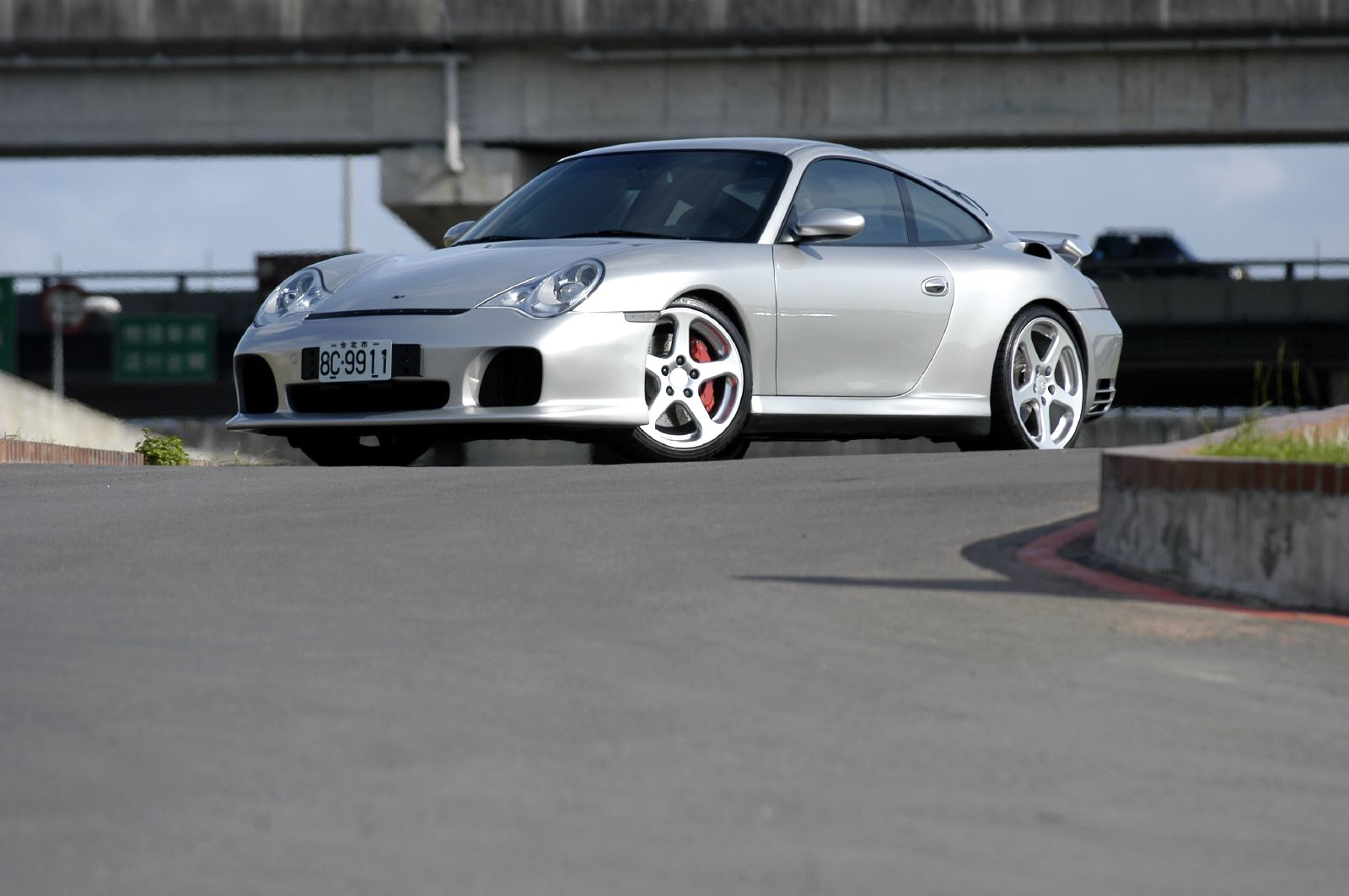 Ruf R turbo based on Porsche 996 turbo